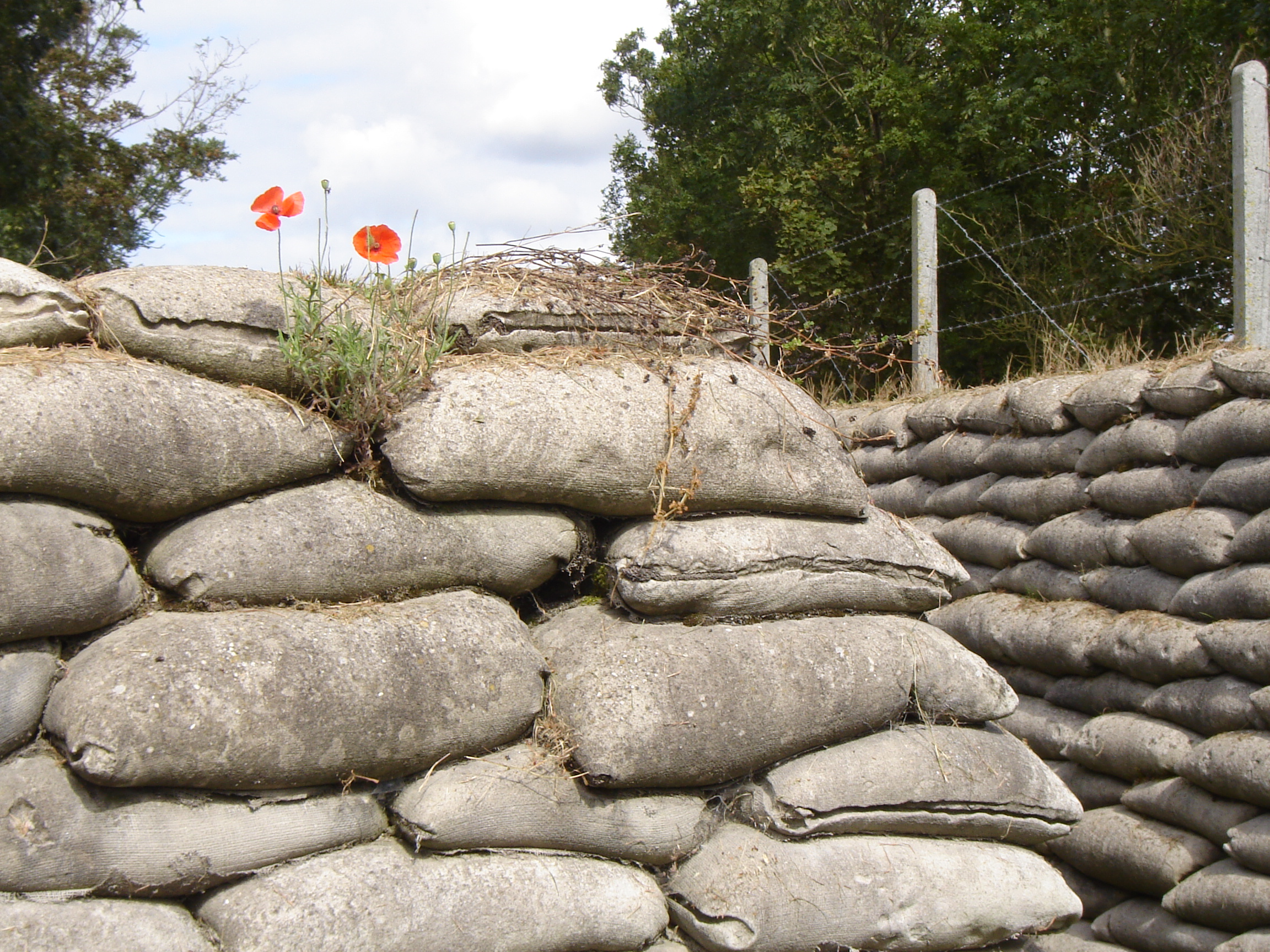 The Dodengang ("Trench of Death"). Diksmuide, West Flanders, Belgium